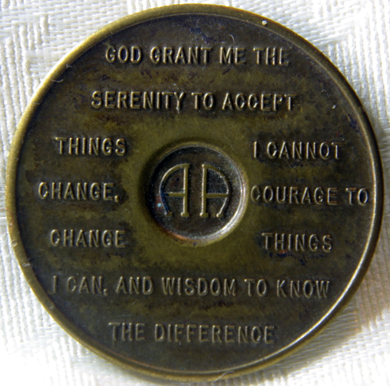 This is one of the medallions some AA groups give to members as they reach milestones of sobriety. This is the back with the serenity prayer, the front has the sobriety anniversary and motto stamped on it.